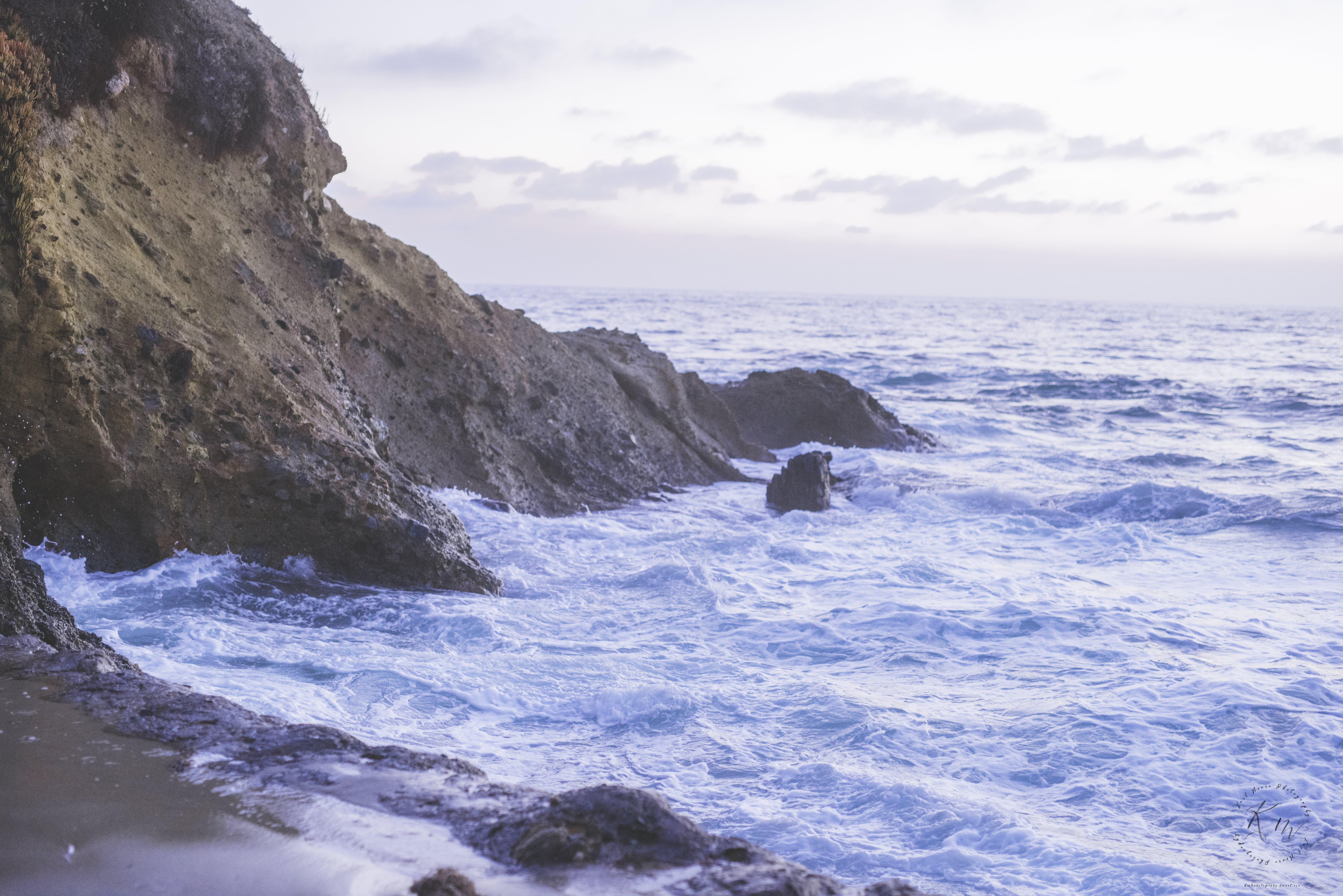 Goff cove at sunset.